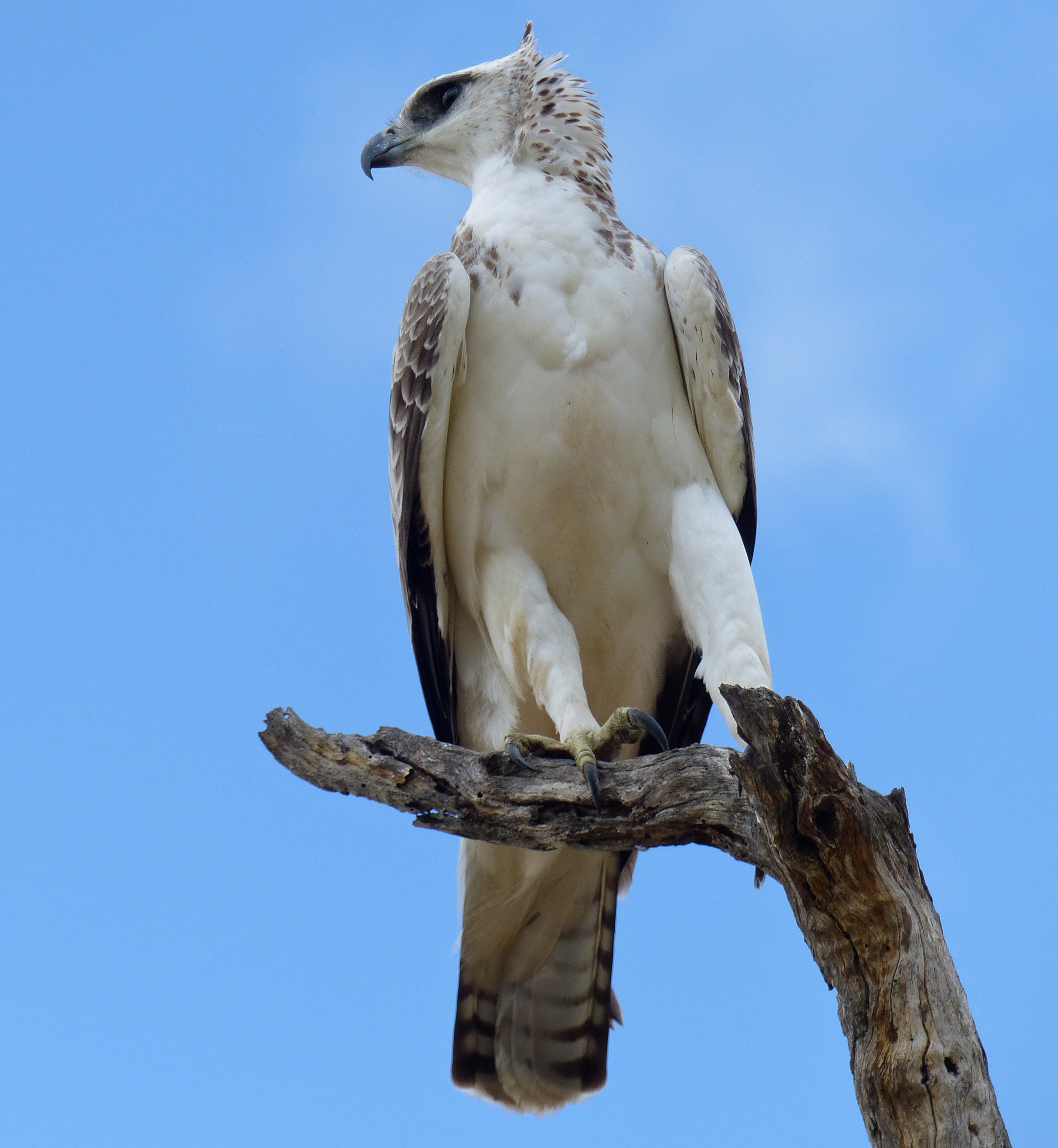 Sable Dam, S51 Road East of Phalaborwa, Kruger NP, SOUTH AFRICA